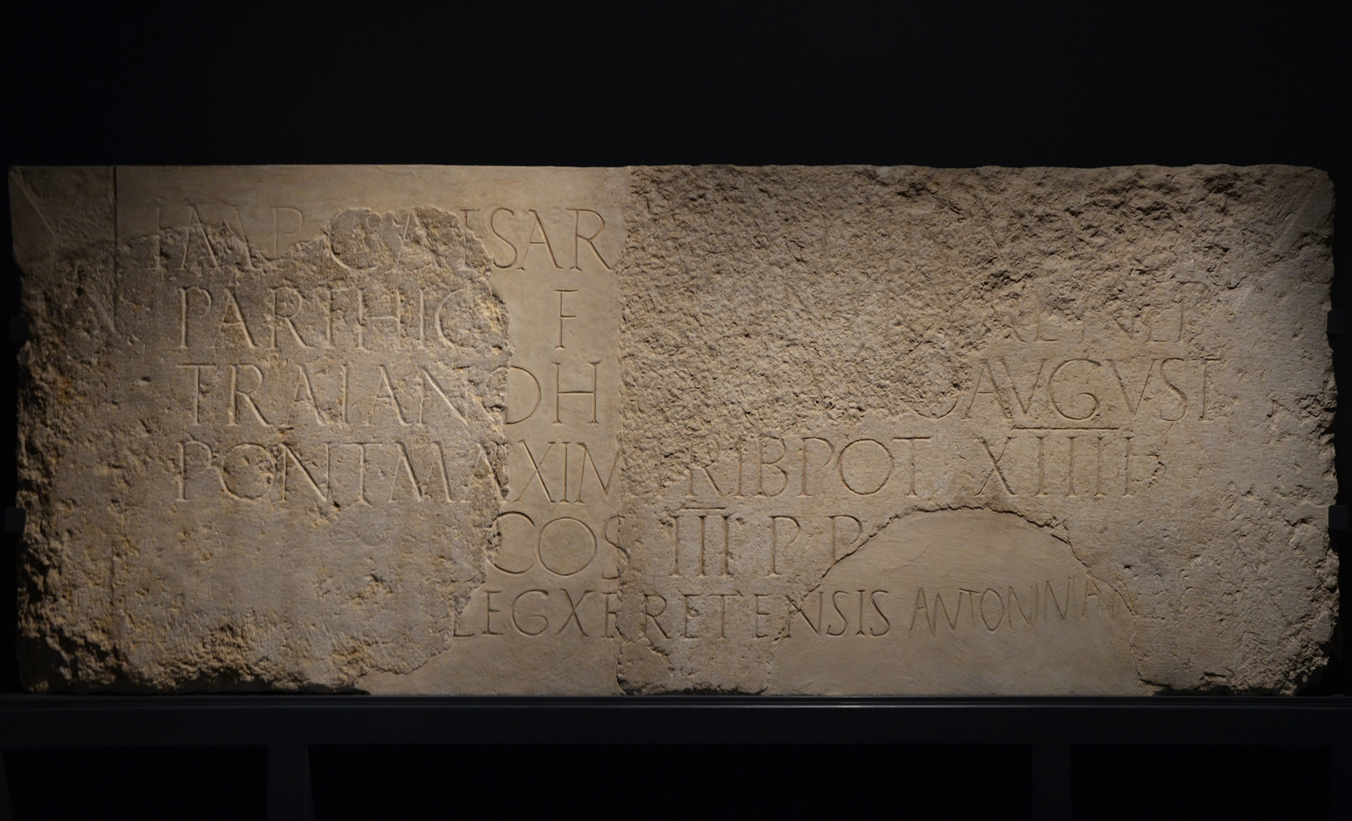 ”To the Imperator Caesar Traianus Hadrianus Augustus, son of the deified Traianus Parthicus, grandson of the deified Nerva, high priest, invested with the tribunician power for the fourteen time, consul for the third time, father of the country [dedicated by] the Tenth Legion Fretensis (second hand) Antoniniana” Hadrian: An Emperor Cast in Bronze